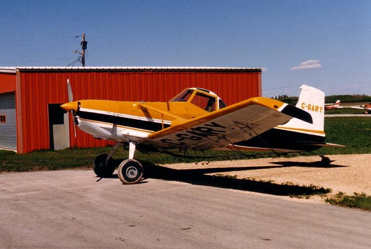 I took this photo of Cessna A188B AGtruck C-GARY at Steinbach Manitoba on 22 May 1988